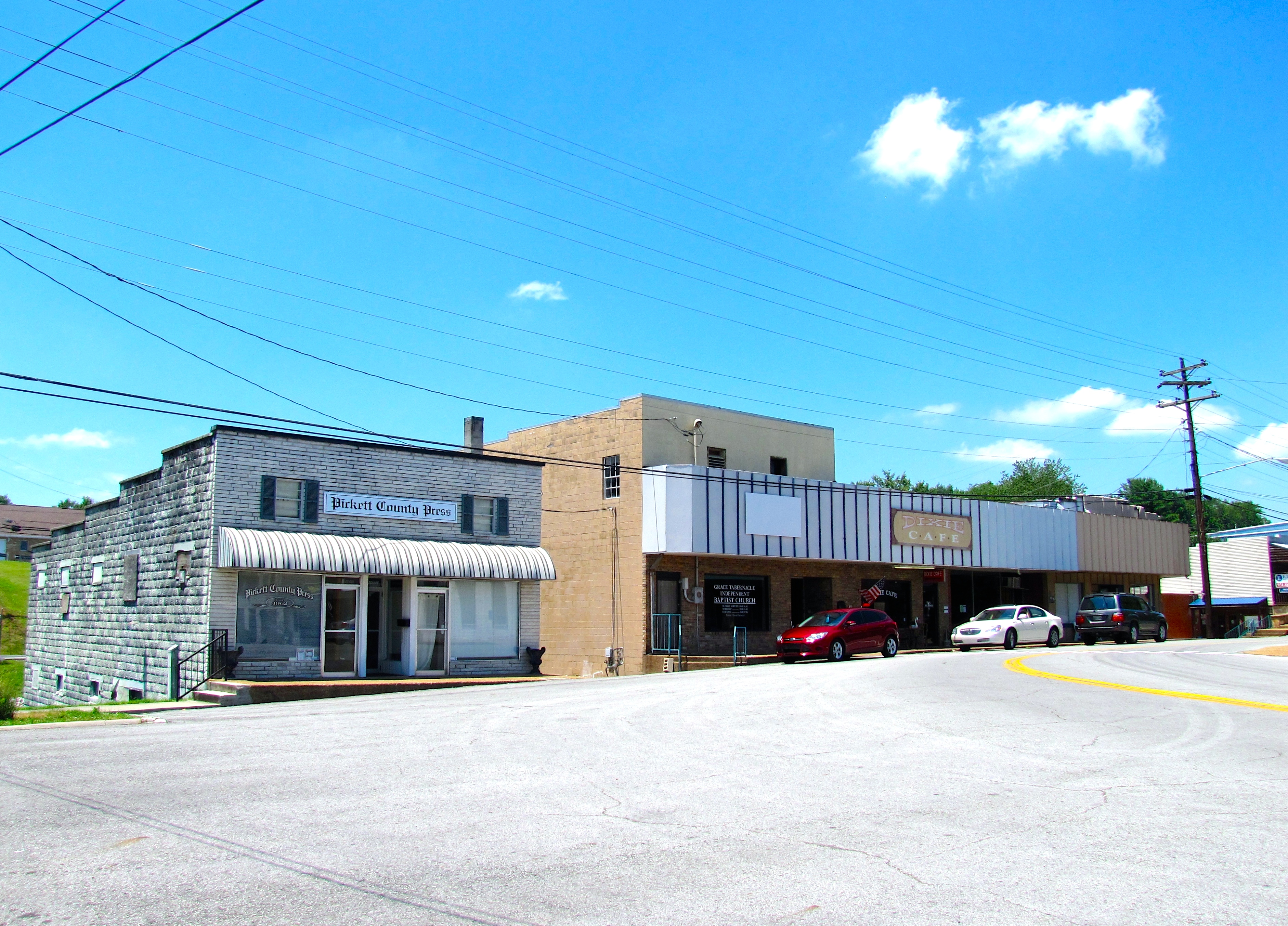 Businesses along Main Street (State Route 325) in Byrdstown, Tennessee, United States.